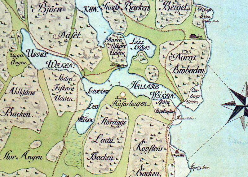 Historical map showing part of Norra Djurgården and Hjorthagen, Stockholm, in the 17th century. The map pictured is a restored version from 1779 produced by Erland Ström.